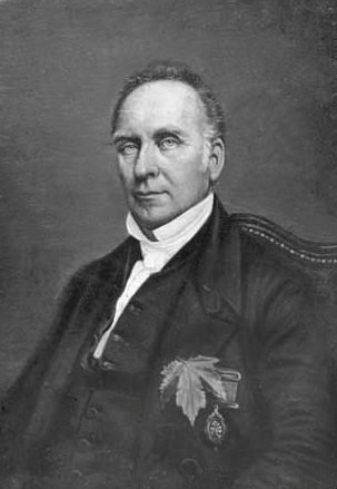 Robert Baldwin